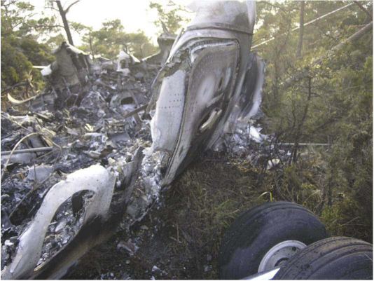 Cockpit of Atlantic Airways Flight 670. The cockpit and the blocked front right emergency exit. The door handle has been pushed out (partially opened). The nose wheels can be seen in the foreground on the right.